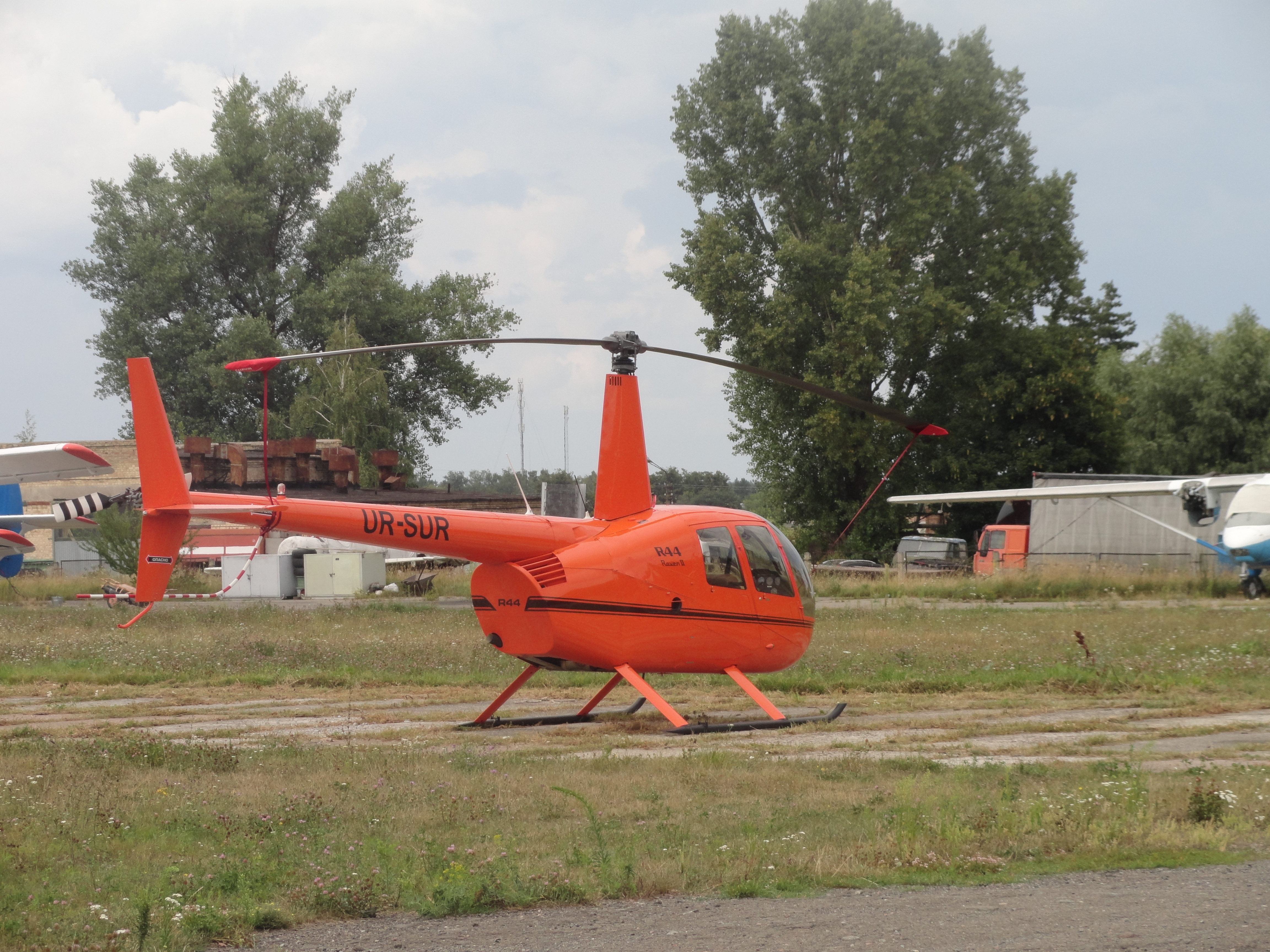 Robinson R44 Raven II, UR-SUR. Kiev Chaika Airfield.